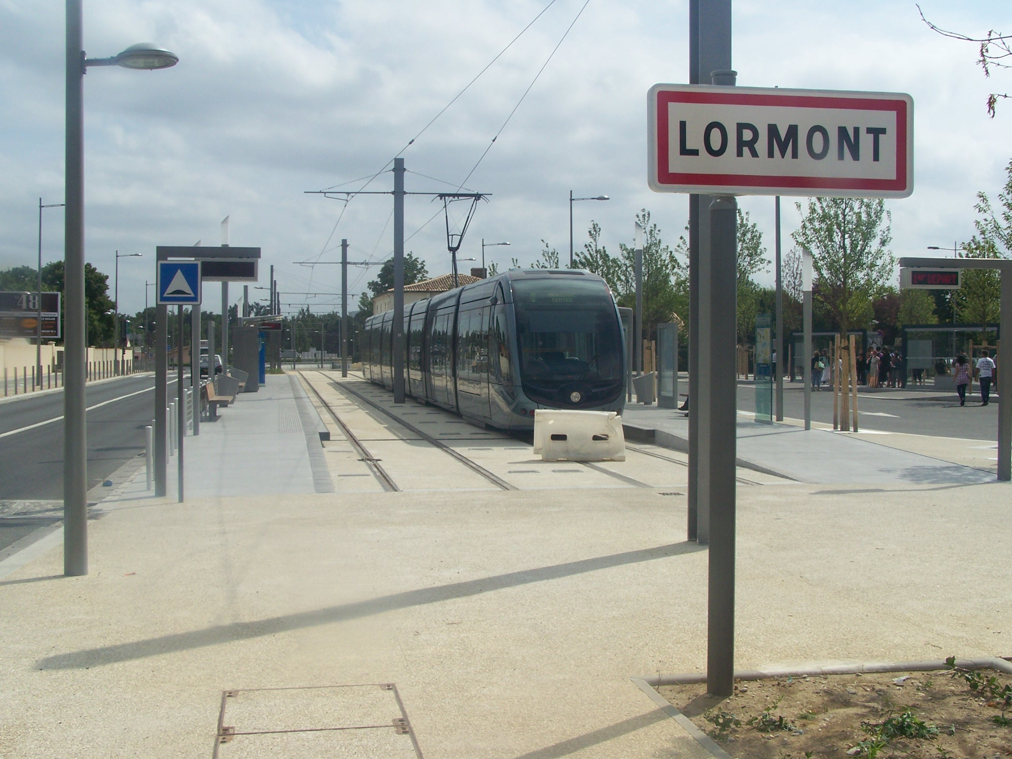 End of line of tram A of Bordeaux in the city of Lormont (Stop La Gardette-Bassens-Carbon Blanc), Gironde, France.